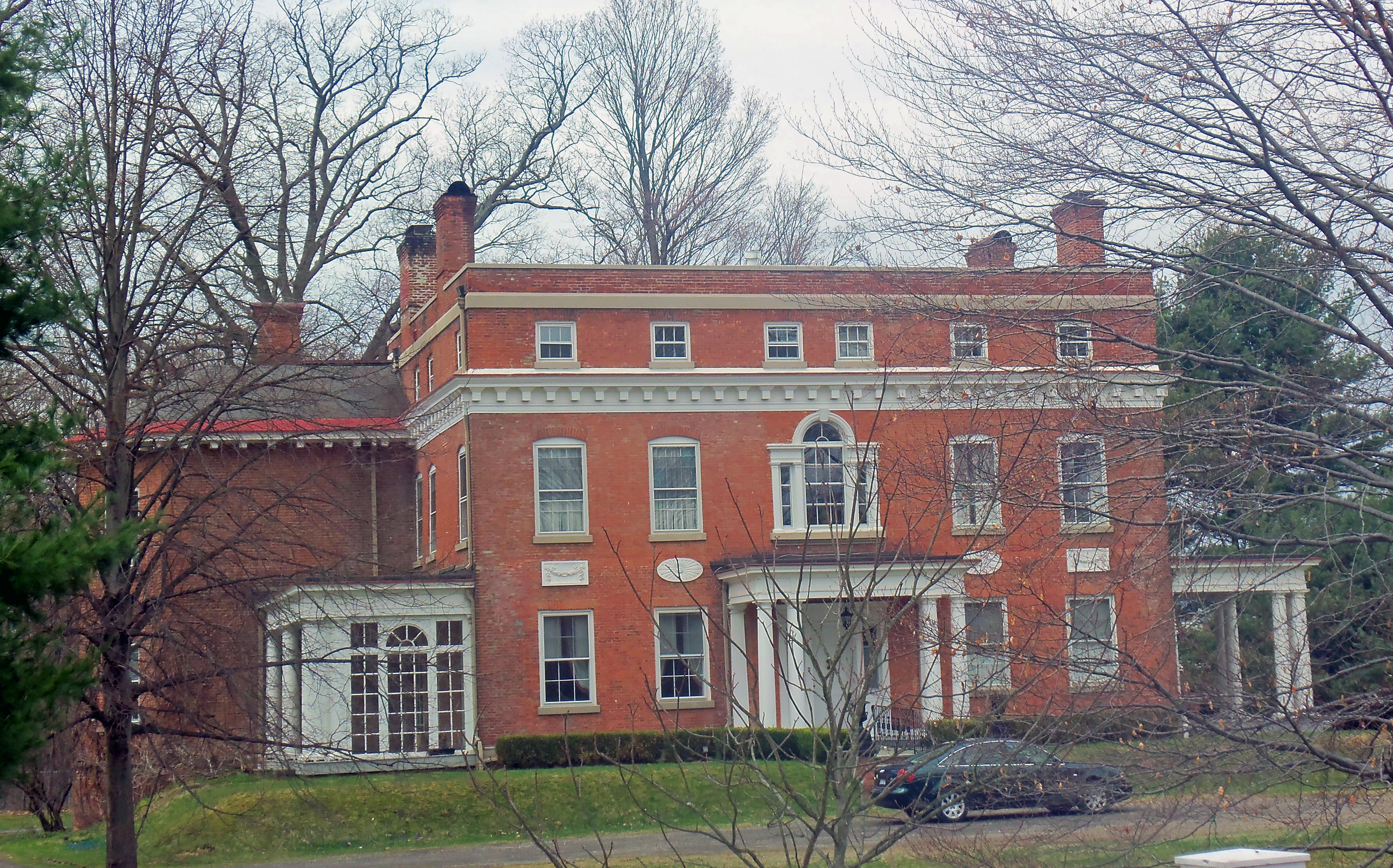 Maizefield, home of former Continental Army general David Van Ness, in Red Hook, NY, USA